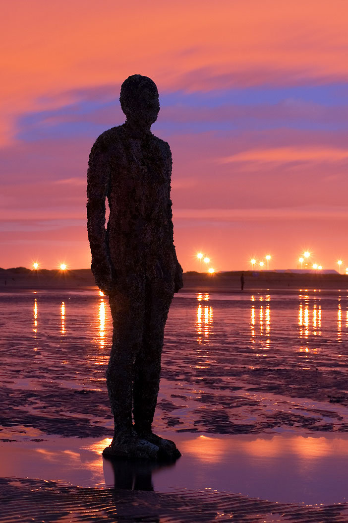 One of the many life-sized cast iron figures of Antony Gormley's installation Another Place on Crosby Beach, near Liverpool in England. The figures all stare out over the Irish Sea in shared solidarity at the relatively bleak seascape. Most of the figures are submerged at high tide and so are now covered with barnacles. One of the other figures can be seen in the background, near the top of the beach, along with the lights of Bootle Docks. This is a temporary installation that has previously been shown in Cuxhaven, Germany.